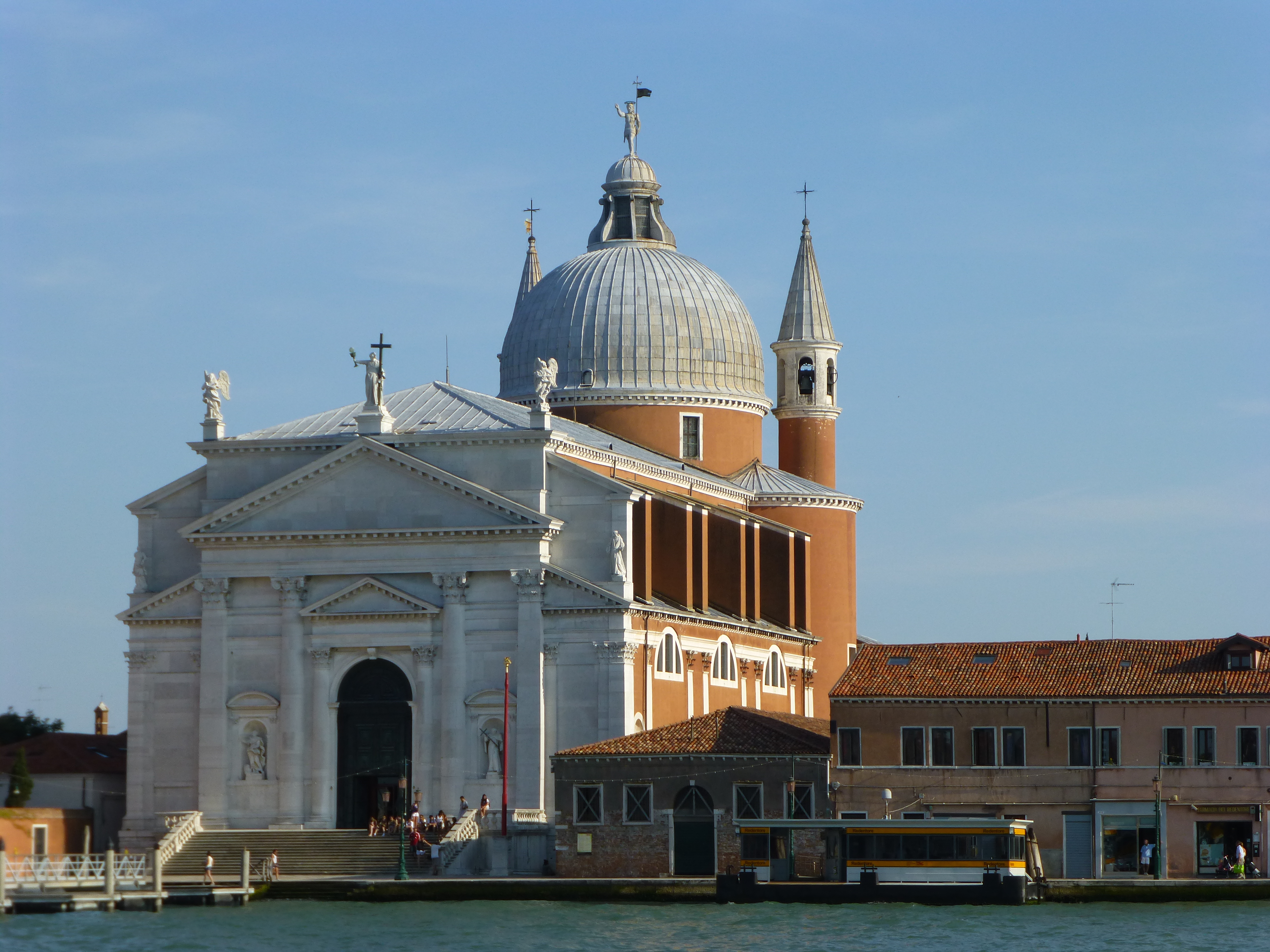 Photograph of the Church of the Most Holy Redeemer in Venice from Guidecca Canal in early evening